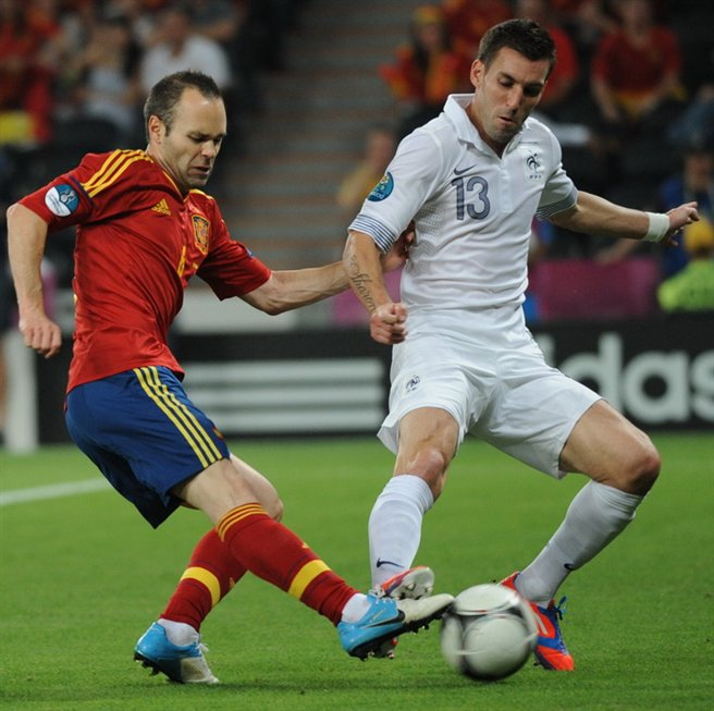 Andrés Iniesta and Anthony Réveillère at Euro 2012 match Spain-France